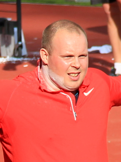 Kim Christensen at the 2012 Bislett Games